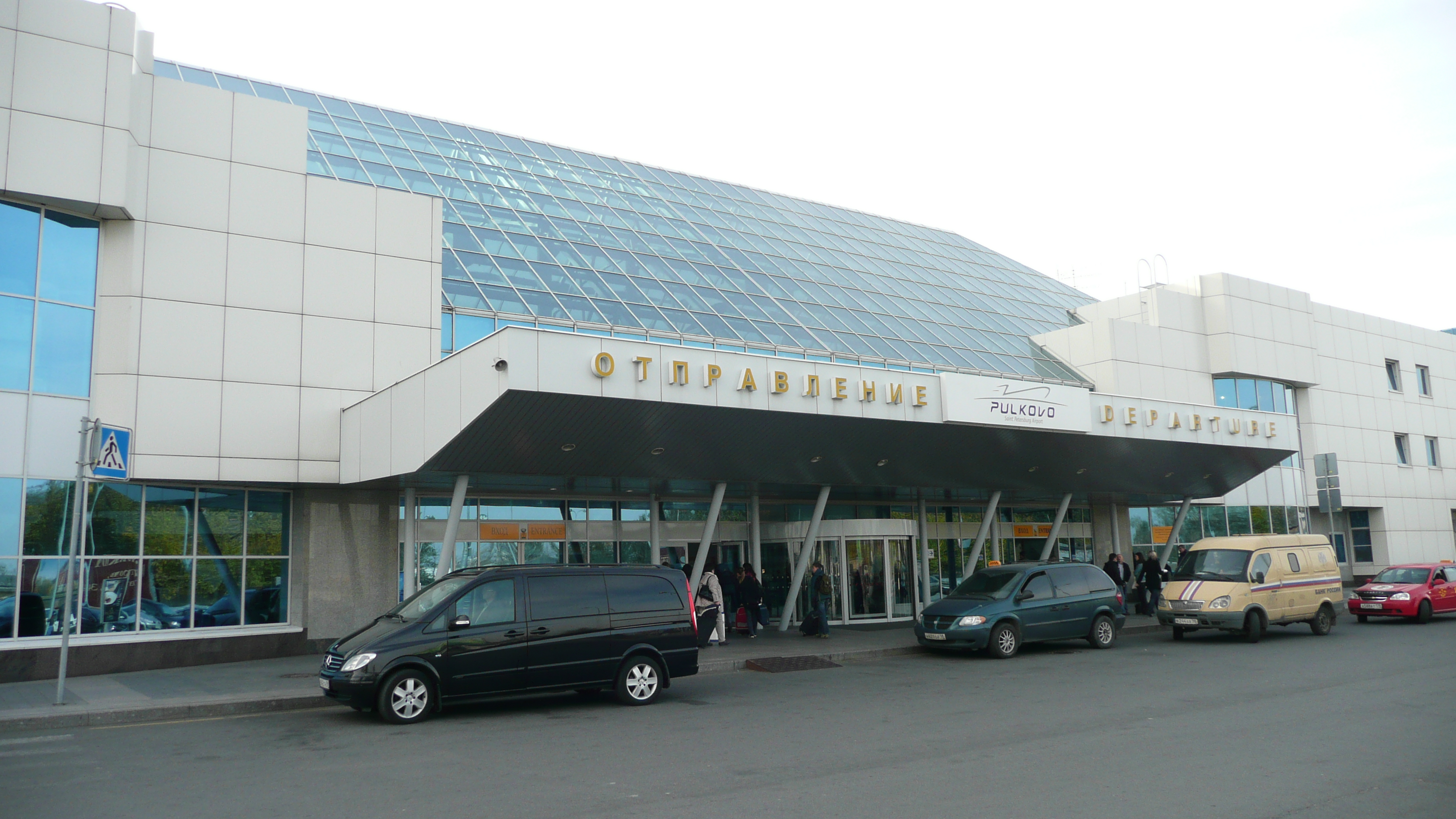 Airport Pulkovo 2, St. Petersburg, Departure Hall